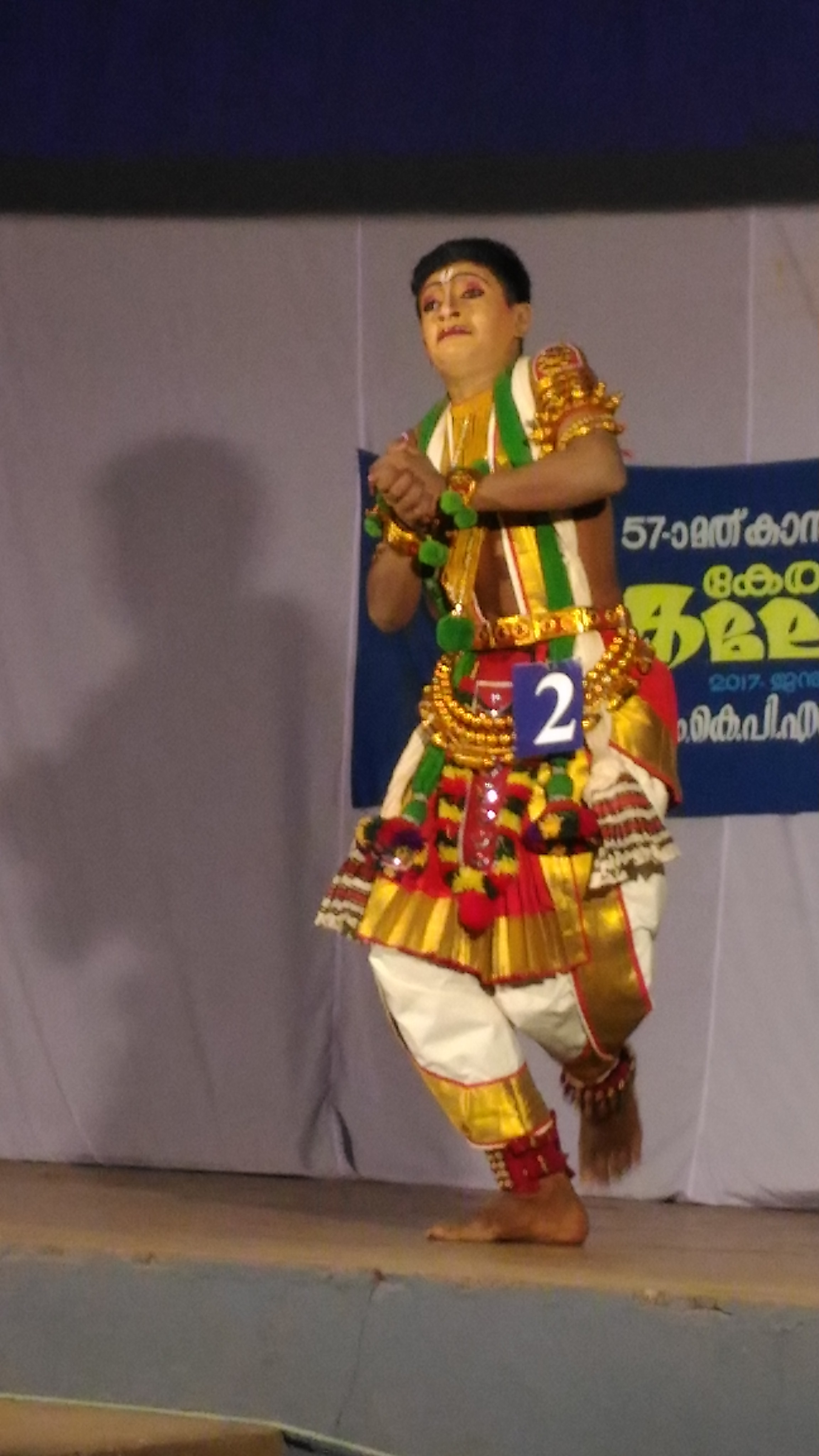 Akshay Chandran kanhangad performs kerala Nadanam